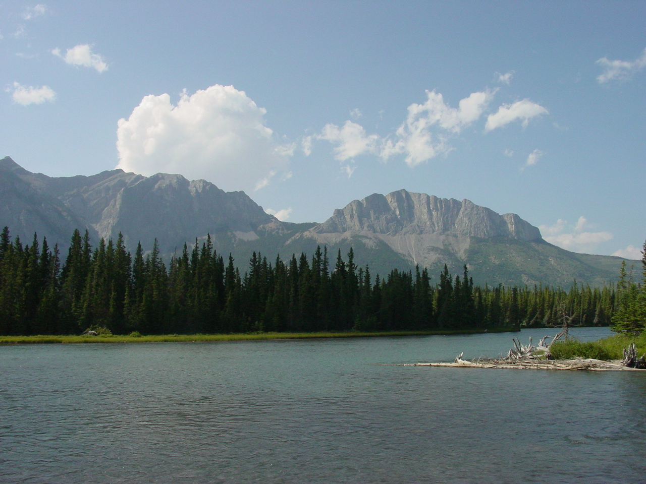 Mount Yamnuska, as it's known to the locals.Mount Yamnuska